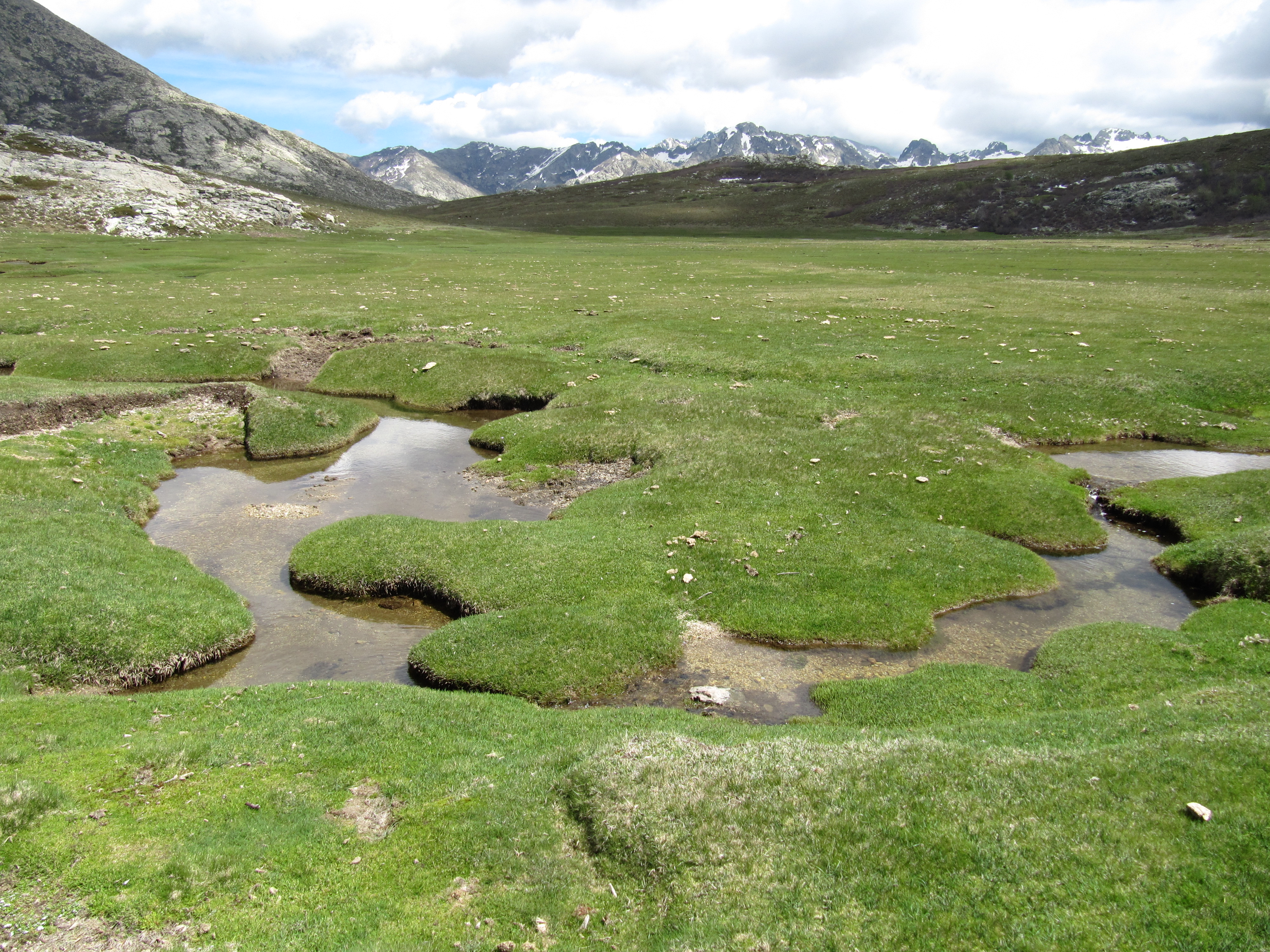 highmoor surrounding parts of the Lac de Nino